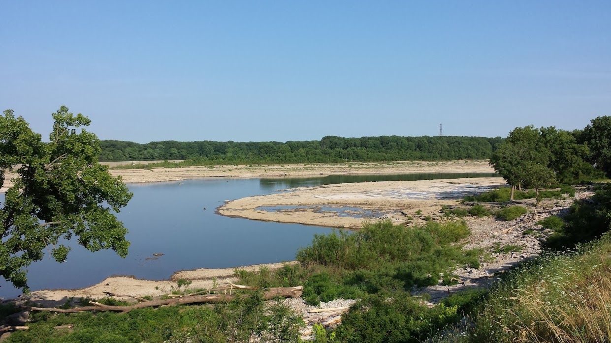 View of Falls of the Ohio SP fossil beds from the bluff